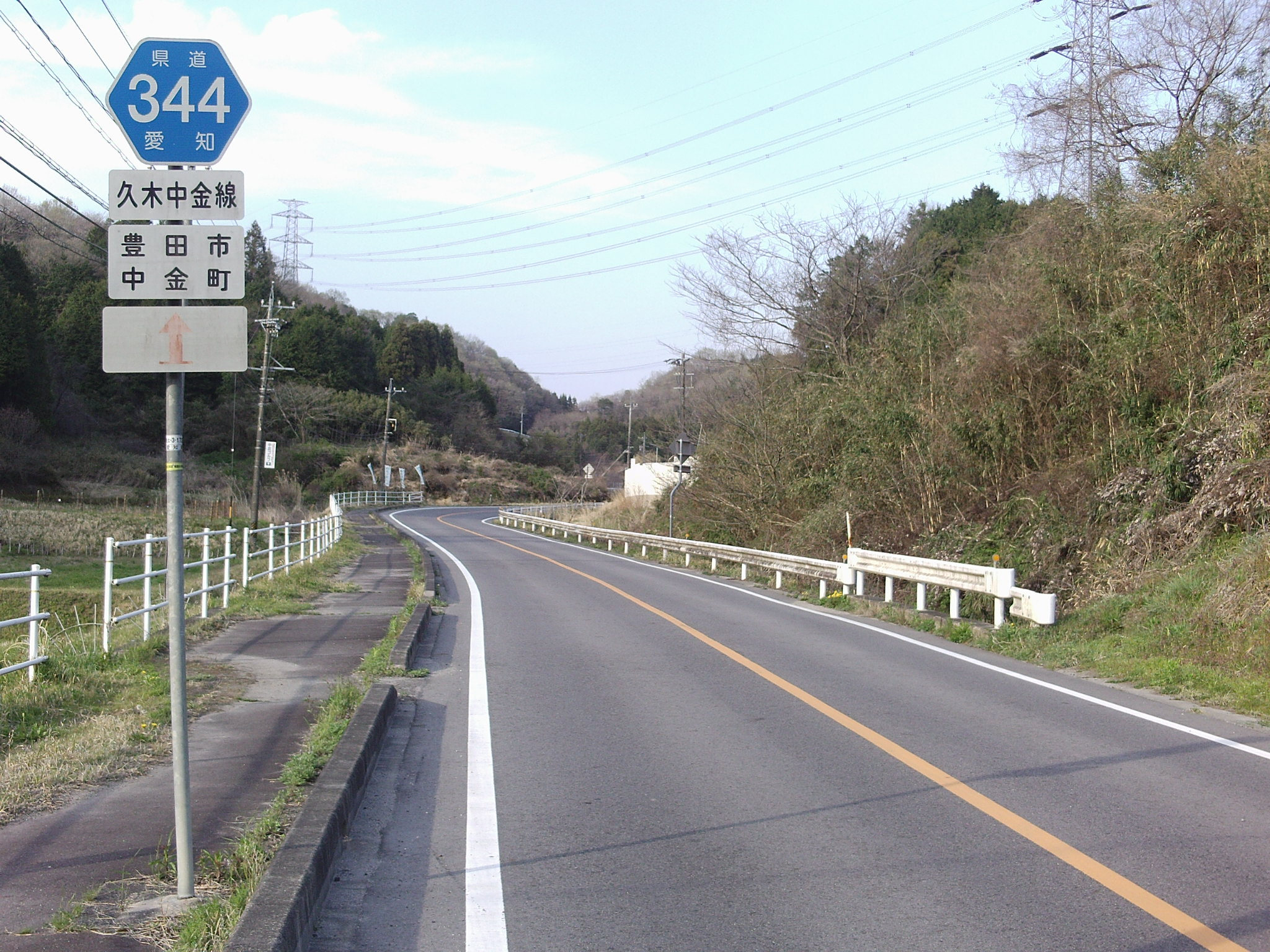 Aichi prefectural road No.344 in Nakaganecho, Toyota, Aichi.